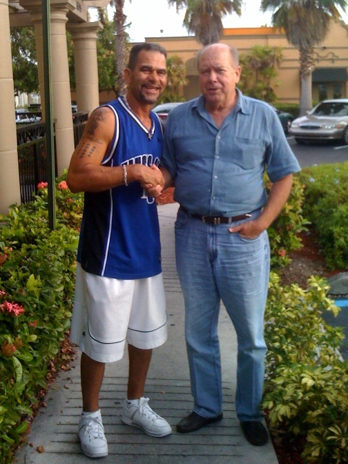 Billy Davis and friend Benito Santiago in south Florida.